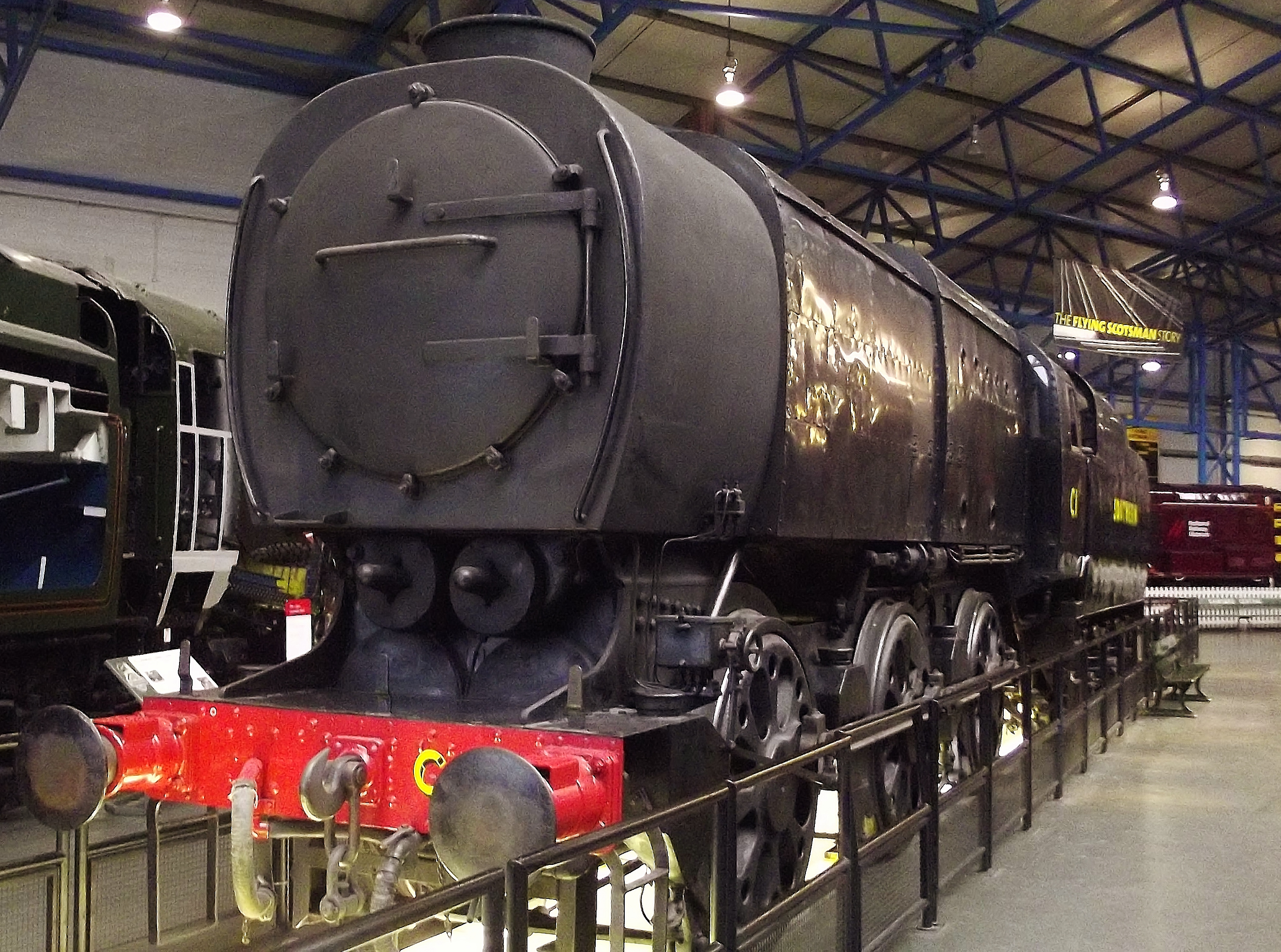 As seen on my facebook